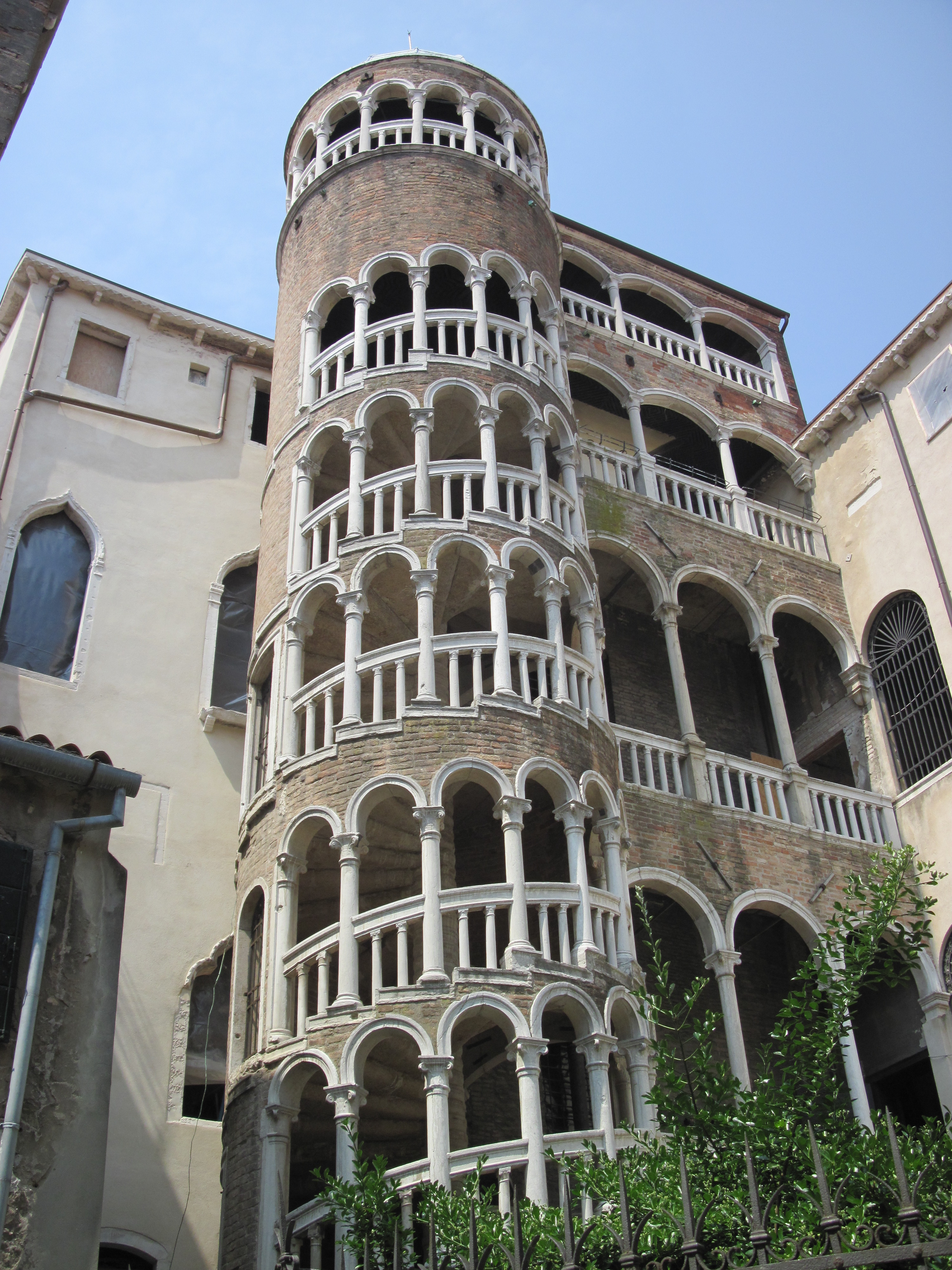 Palazzo Contarini del Bovolo